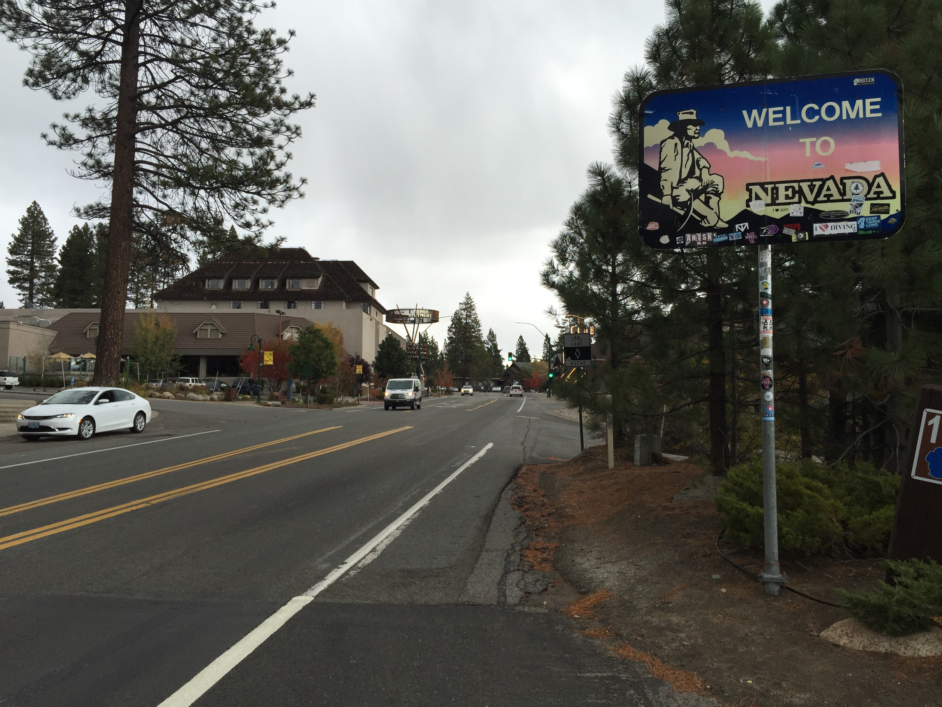 "Welcome to Nevada" sign along southeastbound State Route 28, crossing from Kings Beach, California to Crystal Bay, Nevada